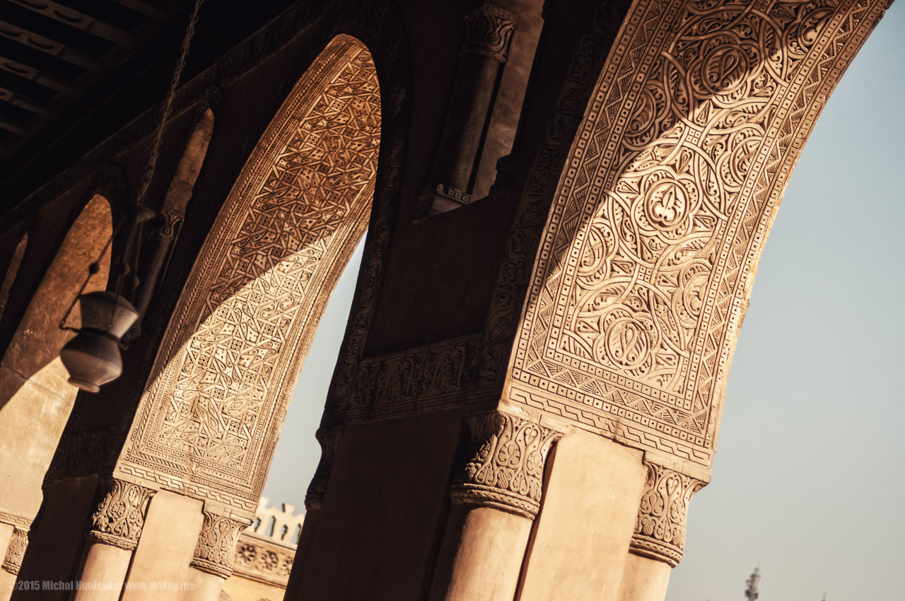 Geometric design of the arches of the Ibn Tulun Mosque in Cairo, detail.